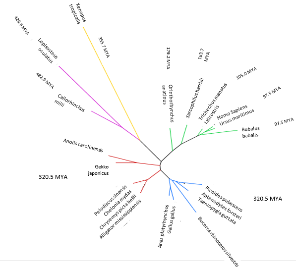 Phylogenetic Tree of C8orf46